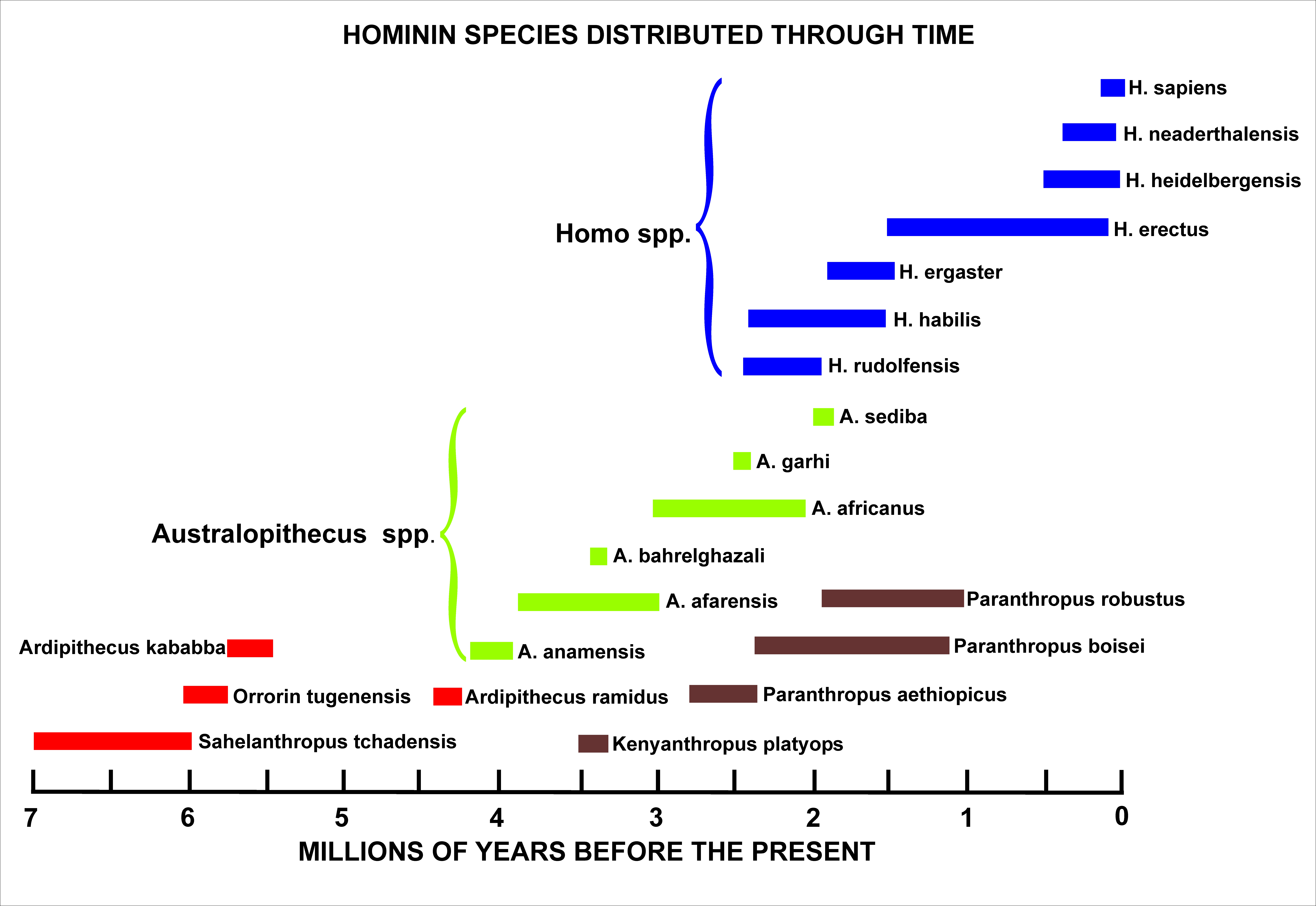 Distribution of Hominin fossil species over time constructed using information contained in the illustration with the same name on the Human evolution page, supplemented and refined with information in Figure 10.12 on p. 294 of "The Story of Earth & Life" by Terence McCarthy and Bruce Rubidge (2005). Struik Publishers, Cape Town. ISBN 1 77007 148 2.